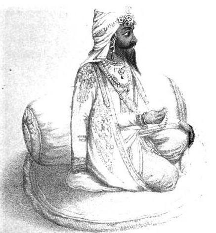 ( Taken from "The history of the Sikhs Volume 1" by William Lewis M'Gregor pg 313